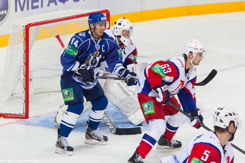 Amur Khabarovsk forward Dmitri Tarasov (in blue) and Lokomotiv Yaroslavl defenceman Maxim Kondratyev (in white, №63) during KHL game on September 8, 2012.